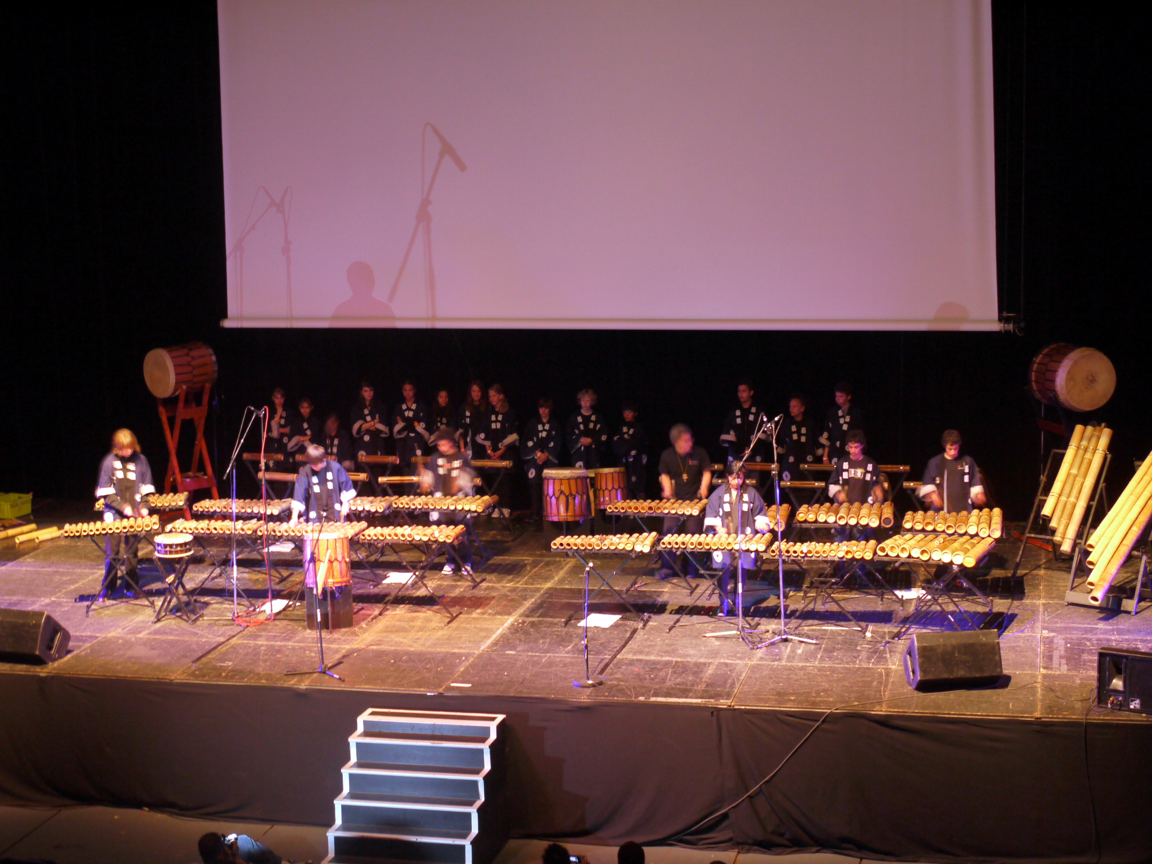 Cultural space of the Mang'Azur Festival at the Zenith of Toulon in 2009.